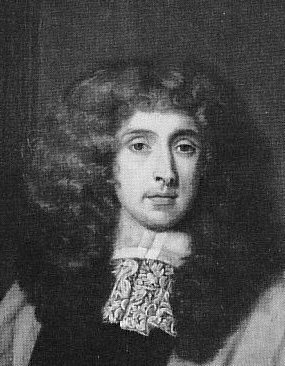 George Jeffrys (1644-1689)